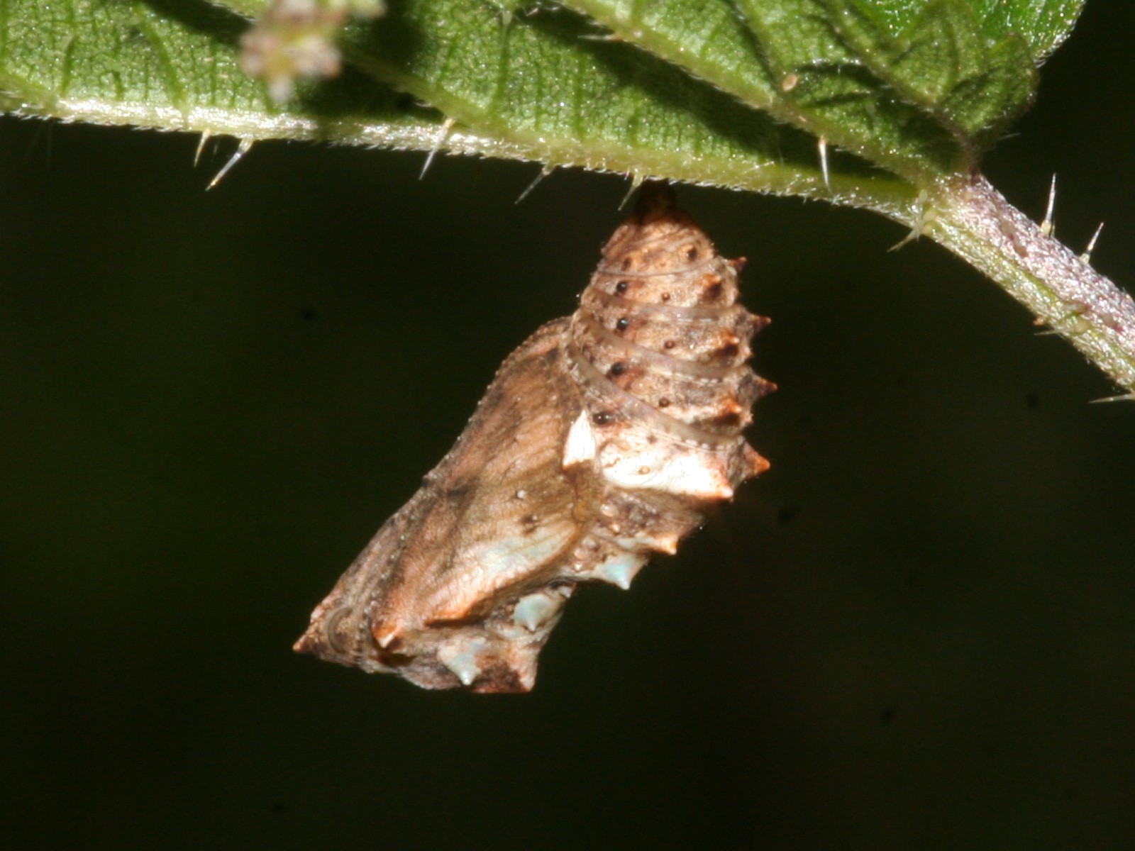 Puppa of Map butterfly (Araschnia levana). Edge of a wood in Grünwald, Bavaria